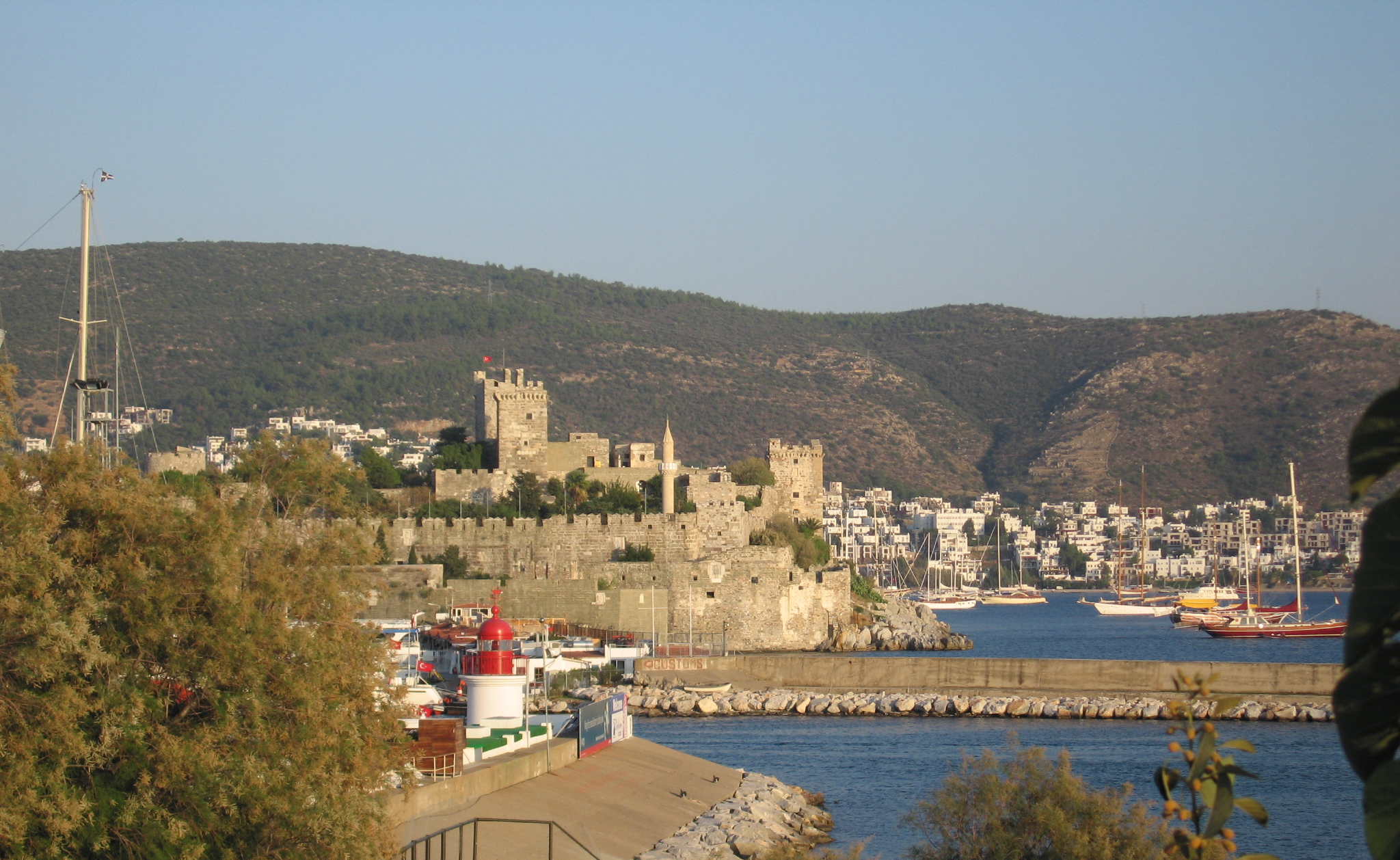 Bodrum Castle and the entrance of the main harbour.